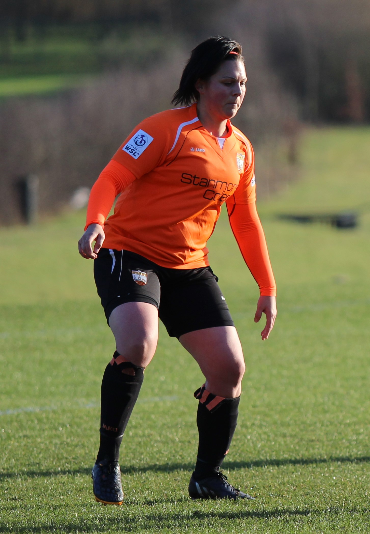 Francesca Ali of Millwall Lionesses goes alone amongst London Bees players.